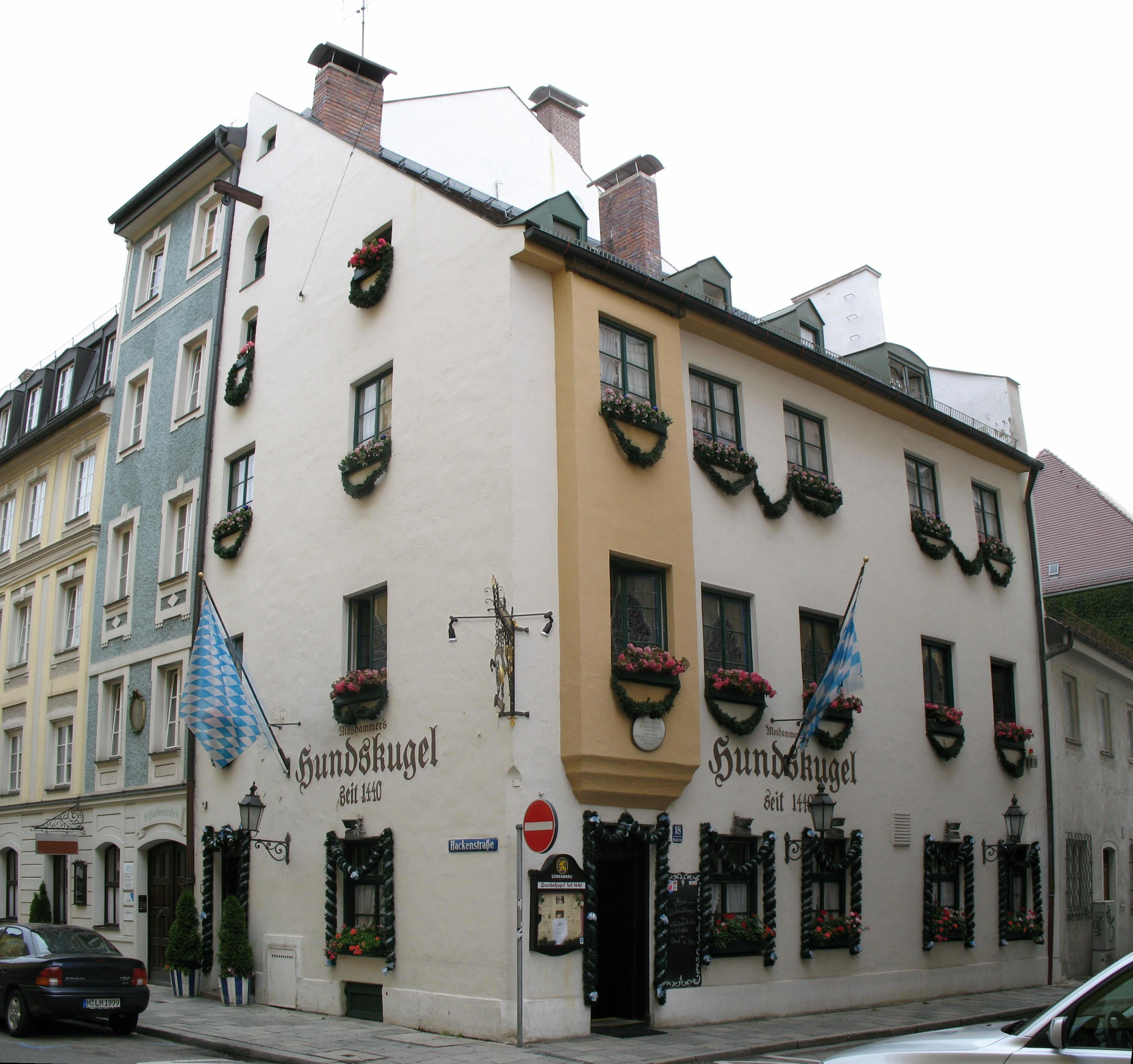 "Dog Ball" beer hall, Munich, Germany